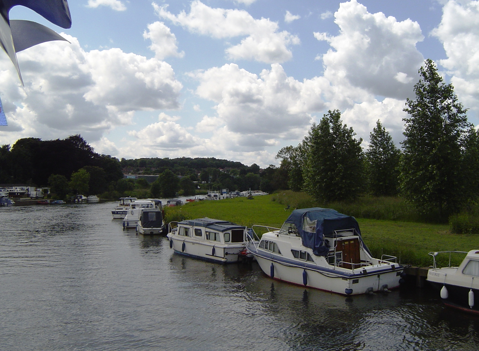 River Thames above Caversham Lock